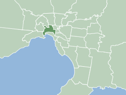 Map of Melbourne